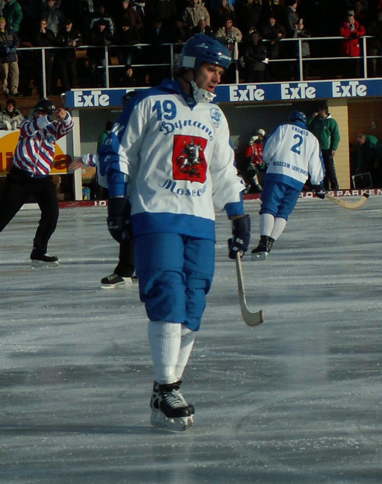 Dimitry Saveliev during Bandy world cup 2007